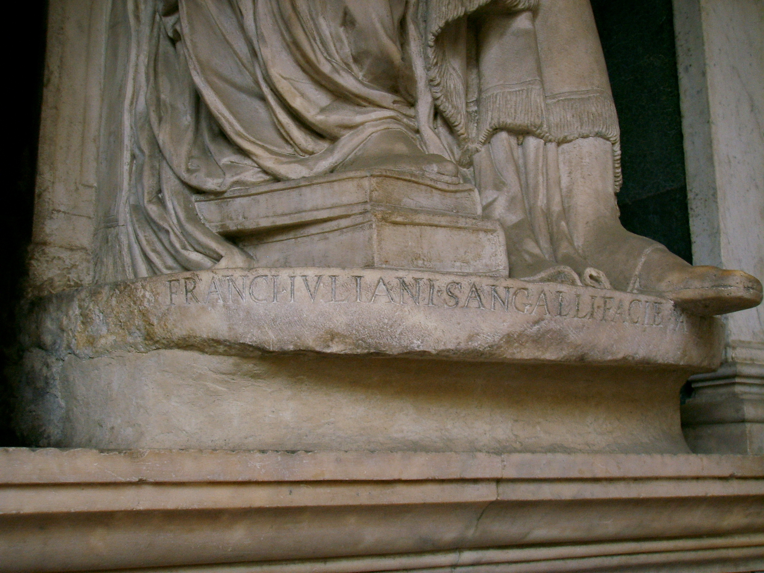 Francesco da San Gallo: signature from the statue of Paolo Giovio, writer and bishop of Nocera, in the cloister of San Lorenzo church in Florence, Italy.